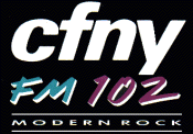 Early 90s station - CFNY-FM